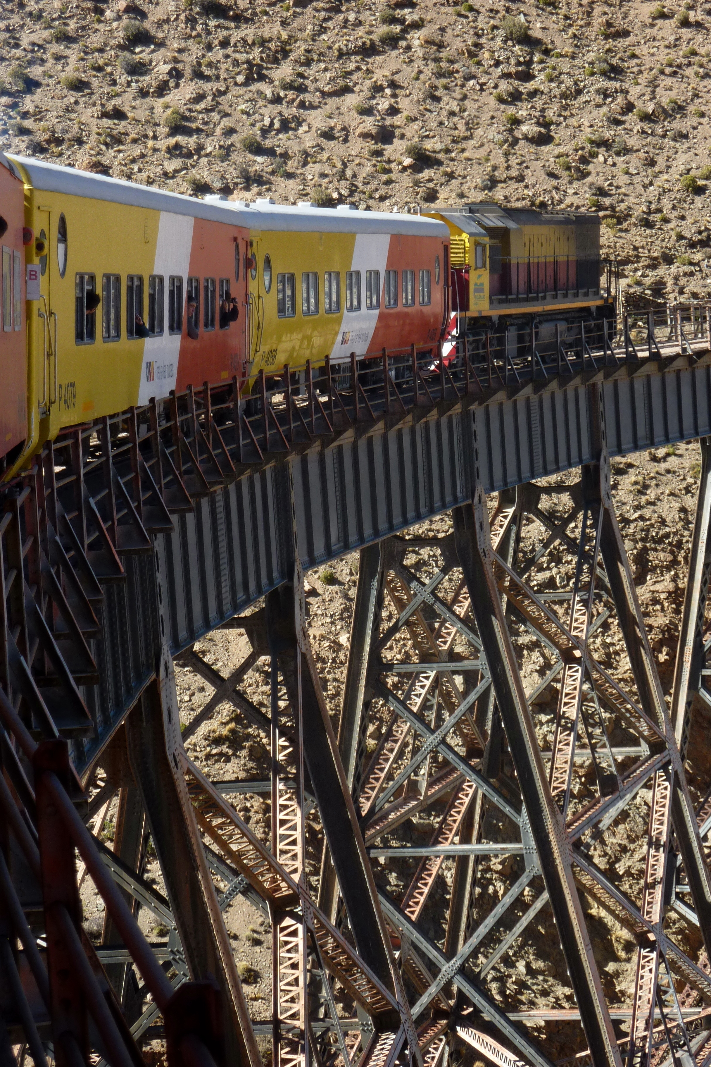 Please, have this description accessible to all by translating it in different languages.